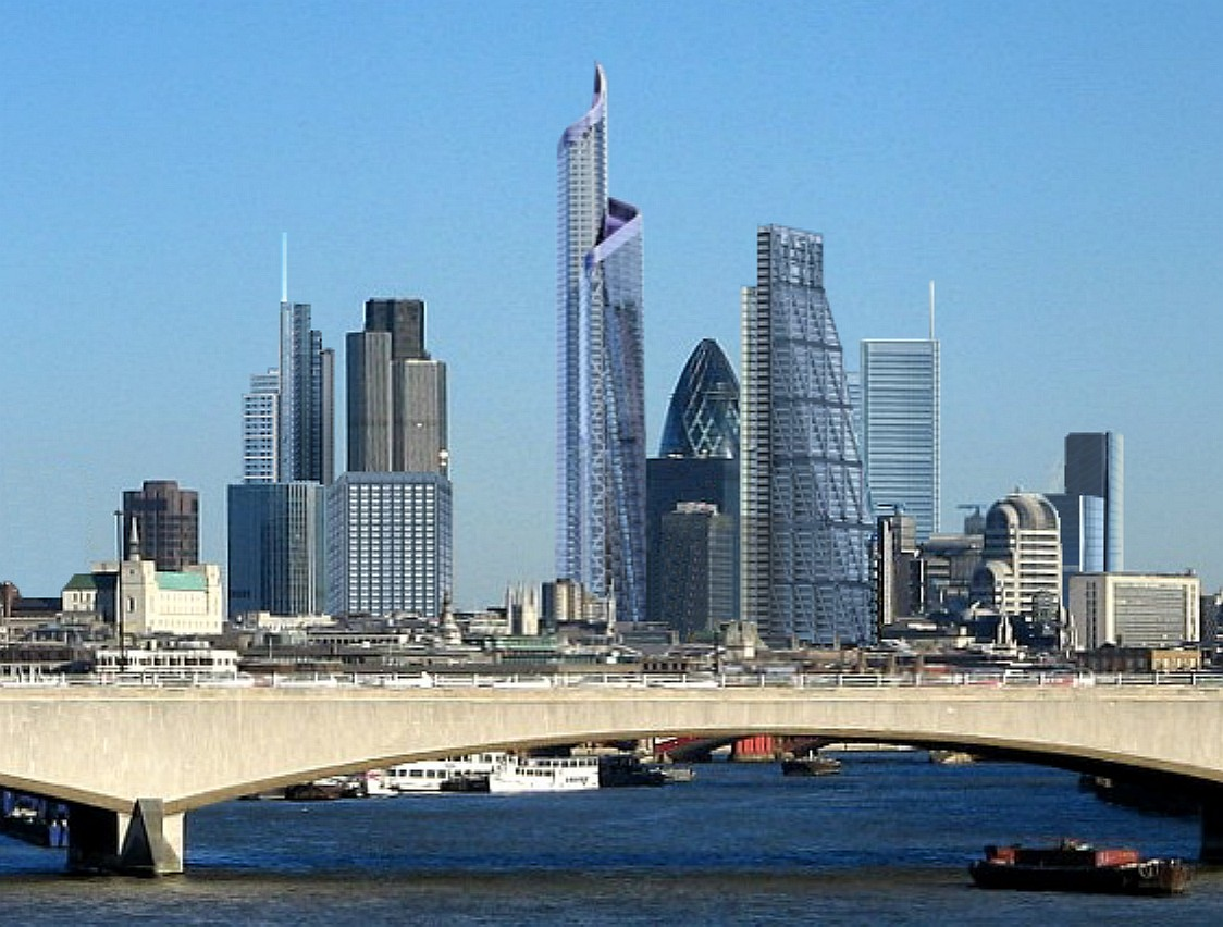 The future London skyline (zoomed-in version). Rendering by Will Fox (